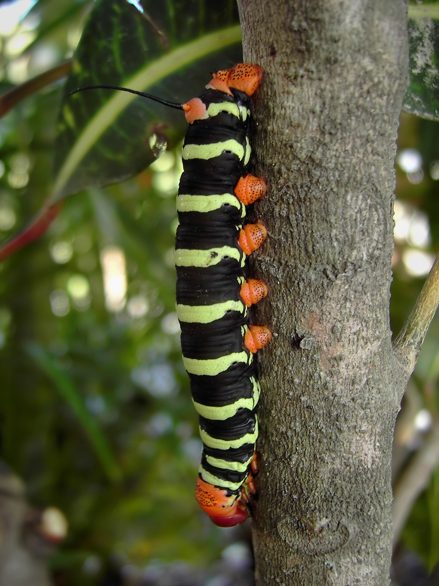 Caterpillar on its host plant (Plumeria alba - Apocynaceae) at Coulibistrie, Dominica, W.I.